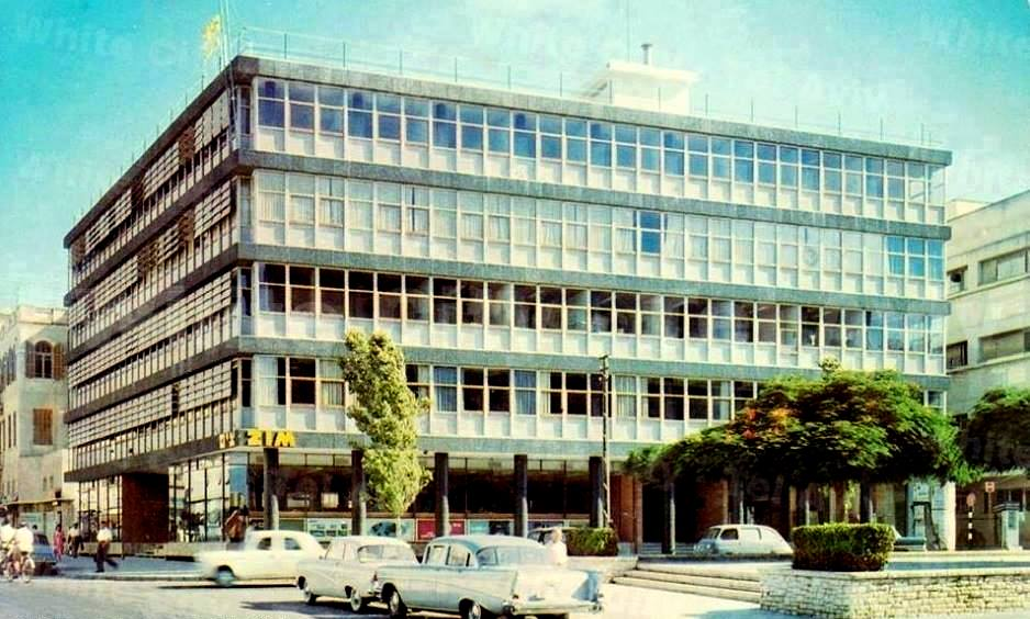 "ZIM Building" in Tel Aviv, Israel, as seen before it was burnt down on Feb. 4 1966